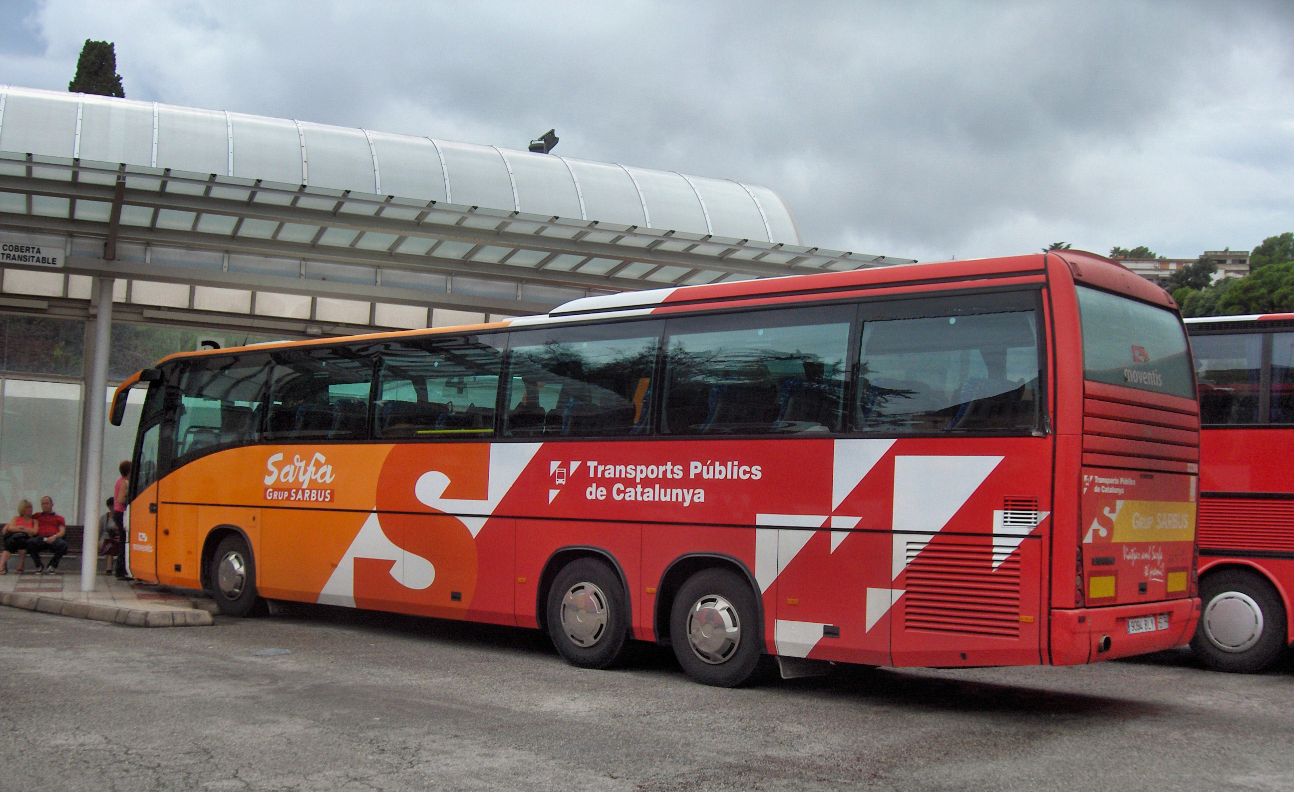 Public transport, Tossa de Mar, Catalonia, Spain. Unidentified bus (#3234, 9094 BLY).